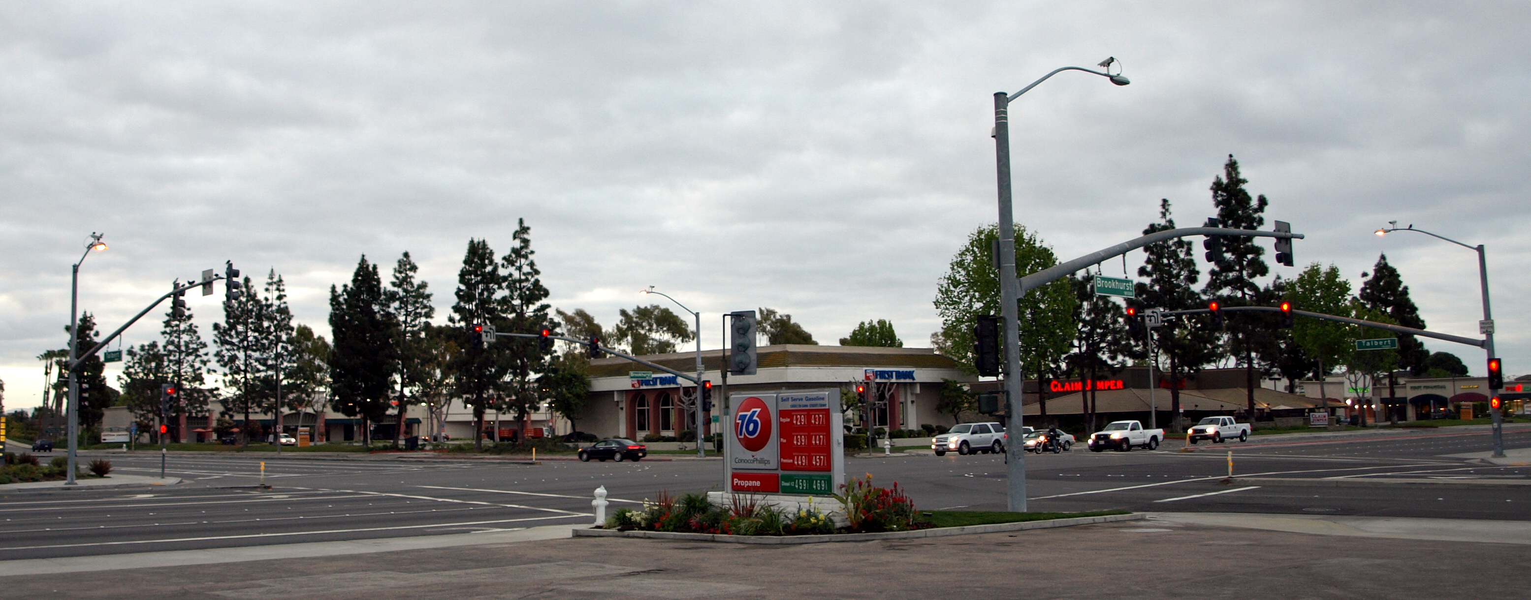 The signalized street intersection of Brookhurst Street and Talbert Avenue in Fountain Valley, California as seen from the parking lot of 76 gas station at 17971 Brookhurst Street, view looking southeast.This photograph was taken with an Olympus E-510 DSLR camera and edited (crop, color balance, brightness, contrast, saturation, sharpness) using ArcSoft PhotoStudio 5.5)